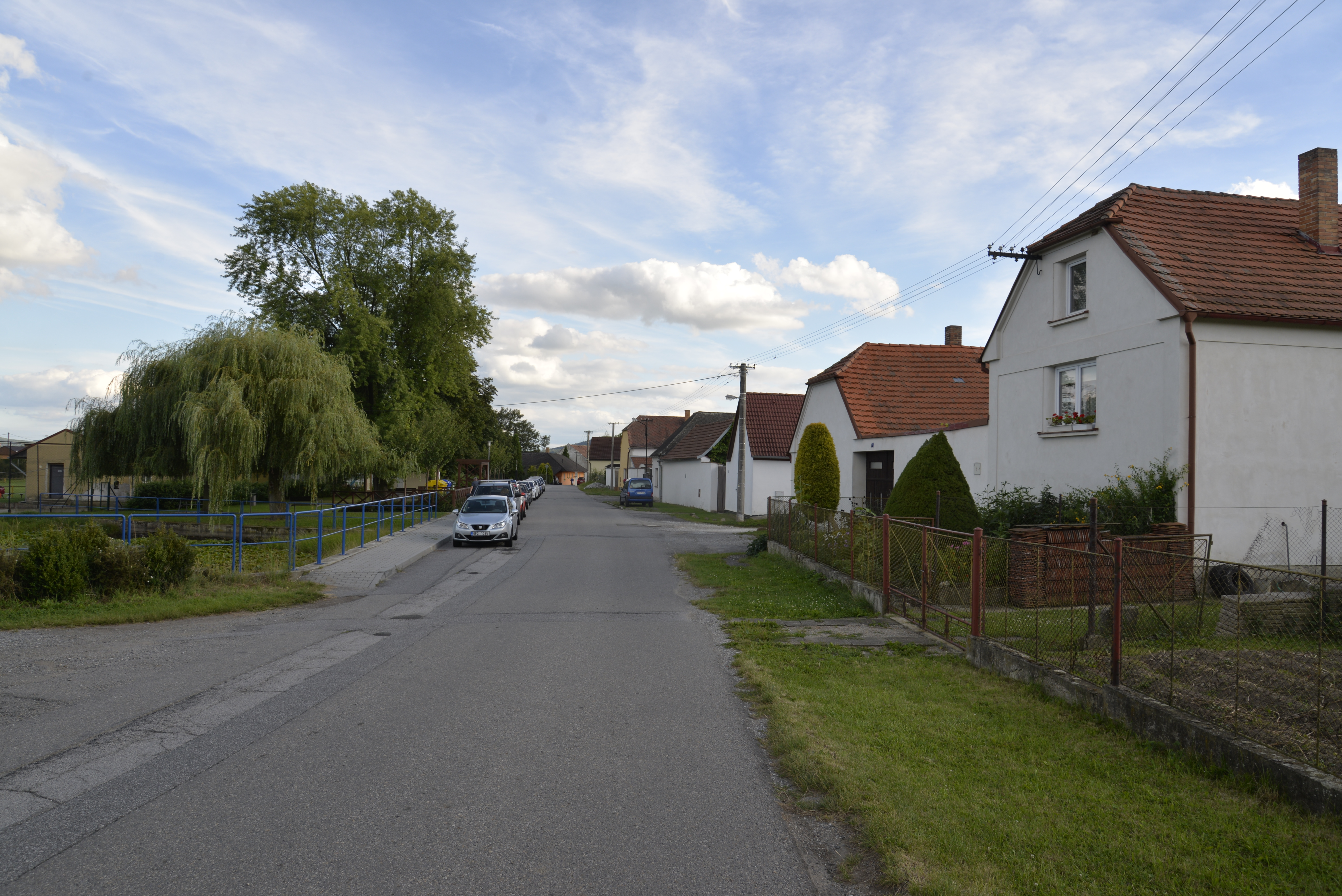 Virt - part of district capital Strakonice